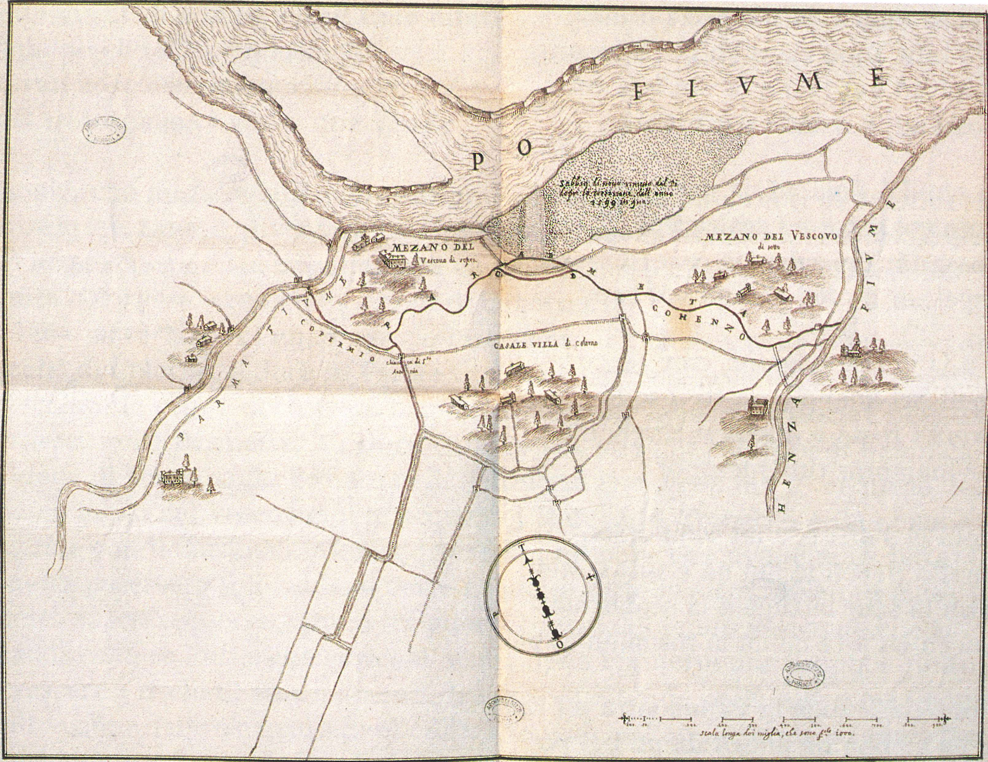 17th-century map representing the confluence into Po river of Parma and Enza